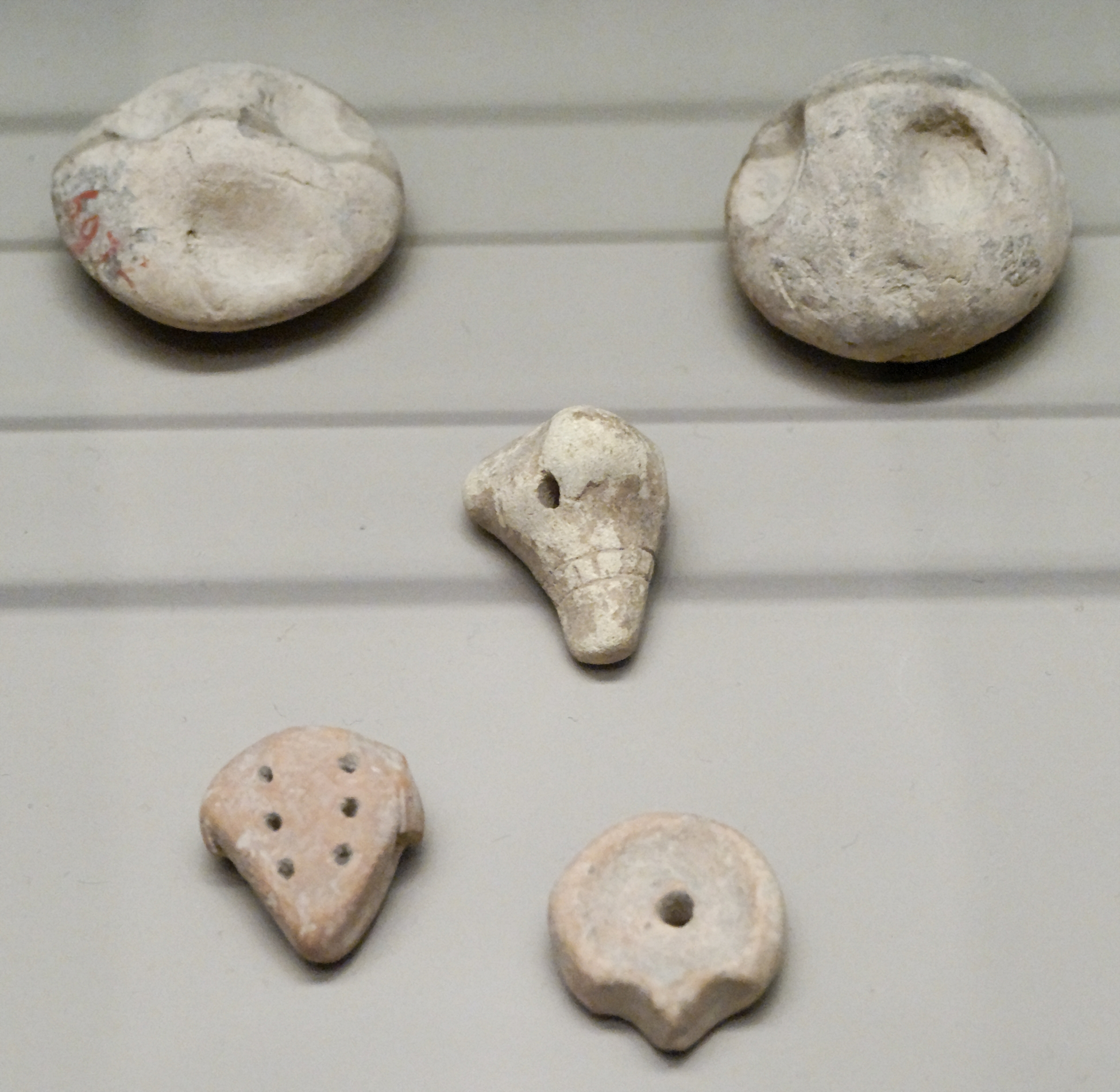 Clay accounting tokens, Susa, Uruk period.